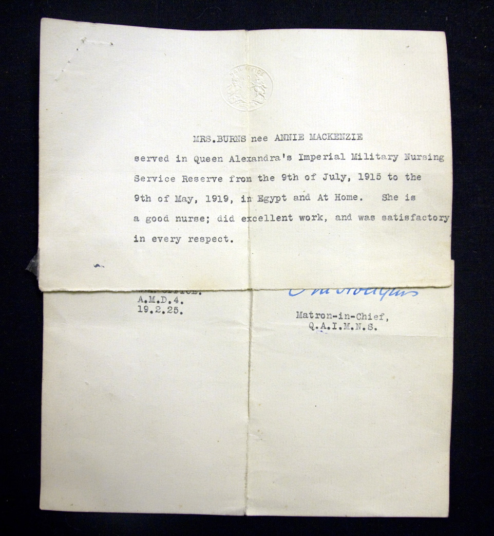 This is the story of the married couple Michael Burns and Annie Burns (nee MacKenzie), contributed by their Niece Sheila Burns. Micheal Burns fought in the war and served time and Annie Burns served as a nurse. The items are the Death Certificate of Micheal Burns, The marriage certificate of Michael and Annie, a protection certificate, dog tags of MJ Burns, A Cornwall Memorial Coin of 1916 re Jutland, a leather Cross Badge, a photograph postwar of the couple, a photograph of Annie in a nurse's uniform, a record of Annie MacKenzie's nursing record, Annie MacKenzie's nurse's certificate 1912, an autograph album containing Belgian and French Officer's dedications